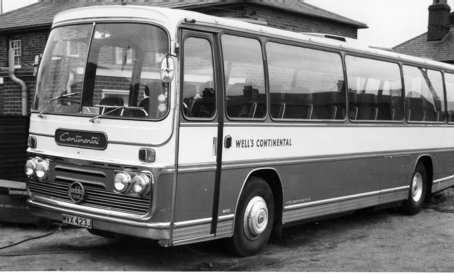 Albert Wells bought this Seddon Pennine new in 1971, painted in the usual white and crimson livery. Unfortunately the signwriter has got the apostrophe in the wrong place. Never mind. The "Continental" badge in the destination box has been pinched from another vehicle in the fleet, 3001UK a grumpy looking AEC with Duple Continental bodywork.which was still in service. It is not clear how Wells justified the word continental in his fleet....perhaps 3001UK inspired it? MVX saw further use in Essex after sale by Wells, having been acquired c 1980 by Southern Star Coaches (Goodger) of Harlow. Since I have found that it operated for Dean Forest (Edwards) Lydbrook, Glos as seen on this site of Alan Watkins. Albert Henry Wells died in 1999 (9th Jan) He was responsible for a large proportion of the coach hire and contracts in the Maldon- Chelmsford- Witham area, and he always had some vehicle of interest in his fleet. In the mid-late 1960s, it included an Albion Aberdonian- Plaxton coach. As modified here